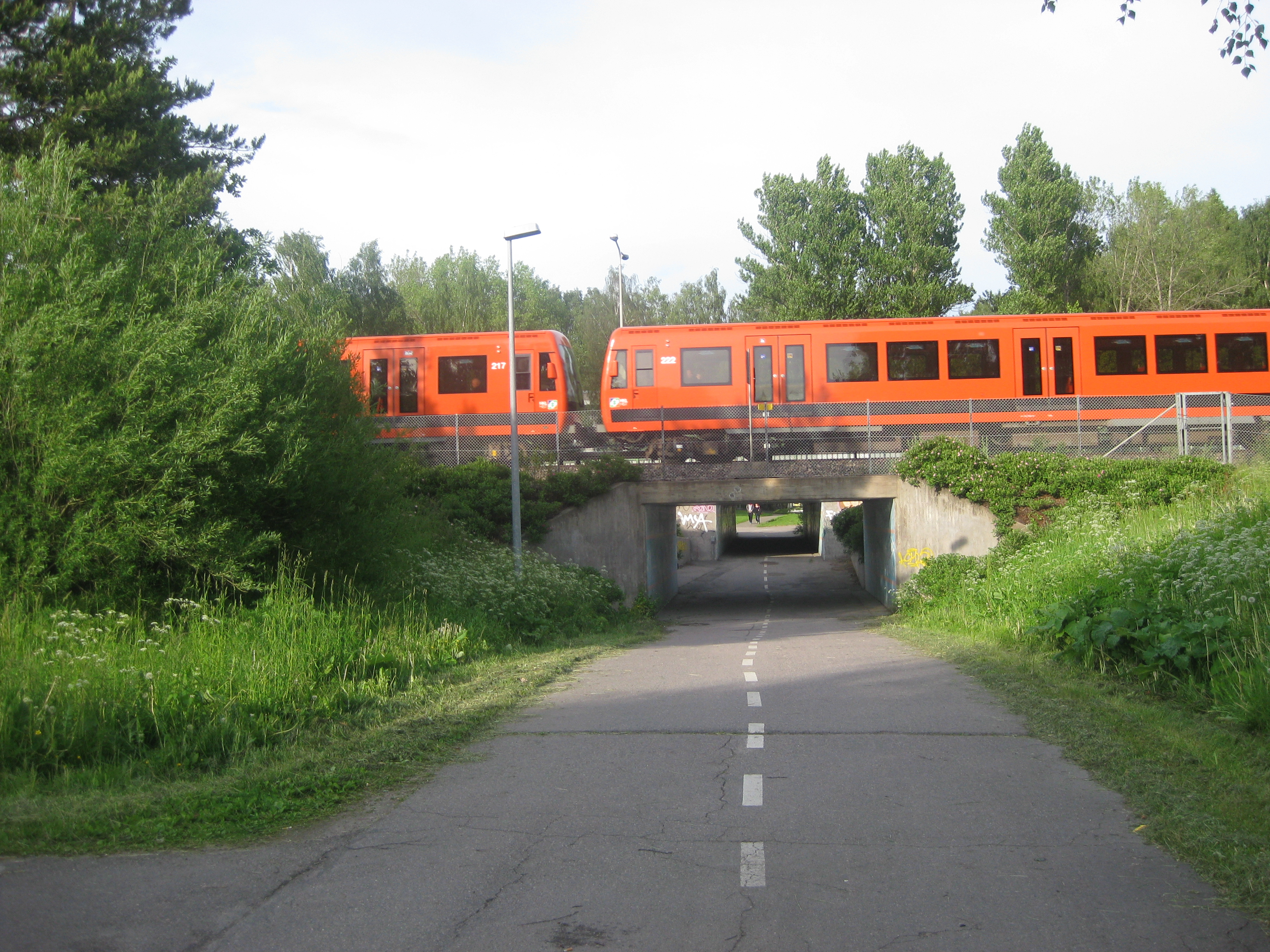 M200 train (belongs to Helsinki Metro) crossing Mustapuronpolku way between the stations Itäkeskus and Myllypuro in Puotinharju, Helsinki